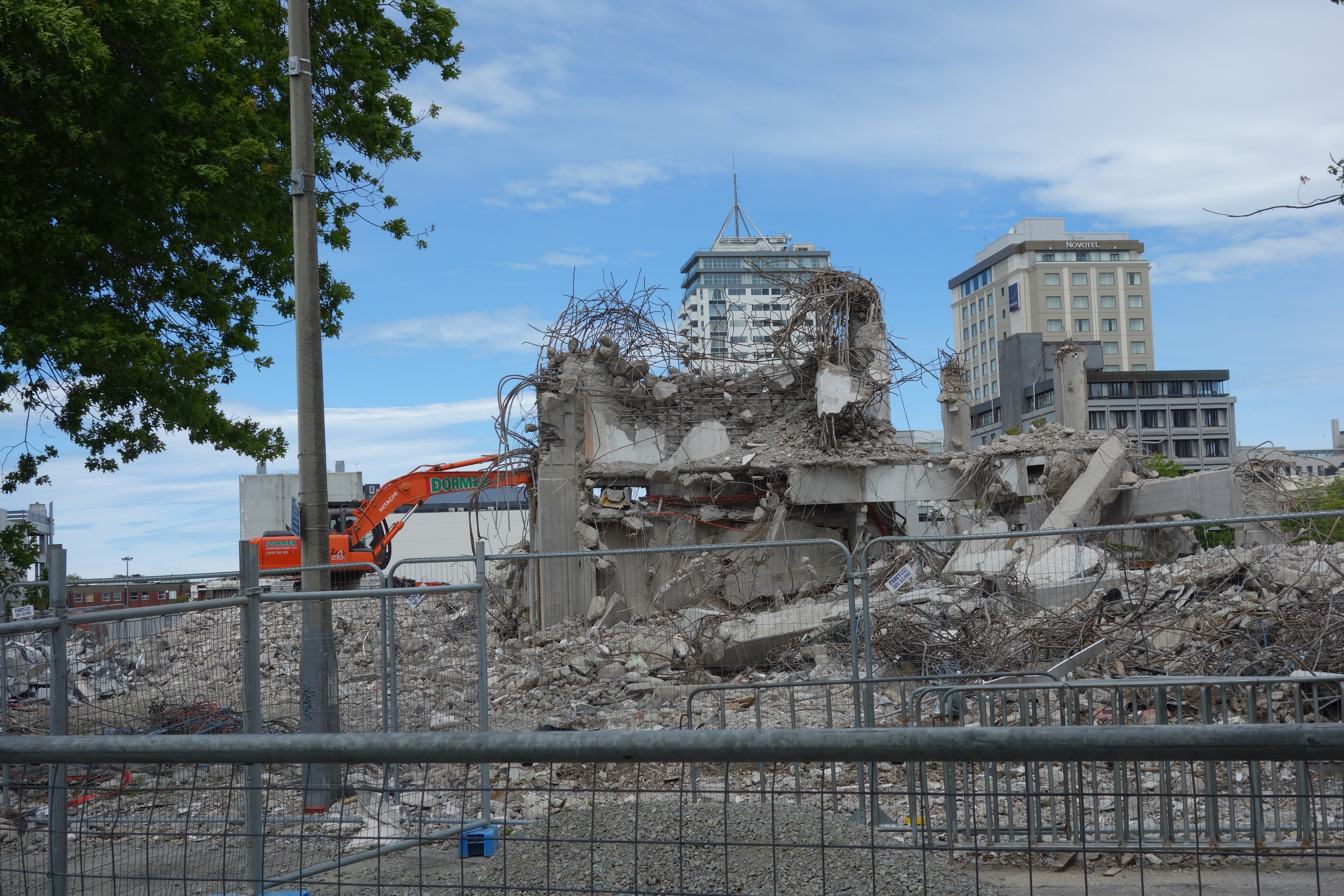 Christchurch Central Library under demolition in November 2014.